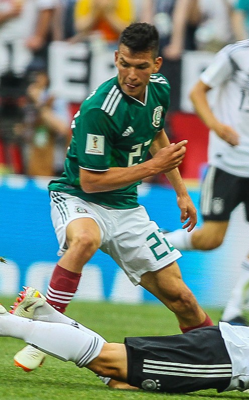 Hirving Lozano